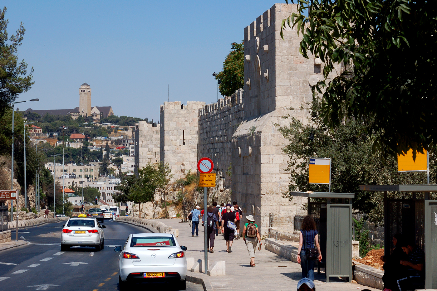 Jerusalem, Sultan Suleiman road, north of the Old City.